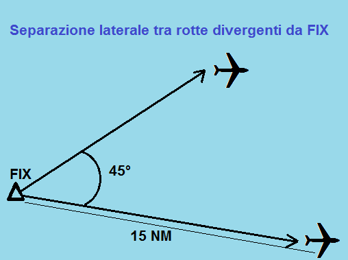 ATC Lateral separation FIX